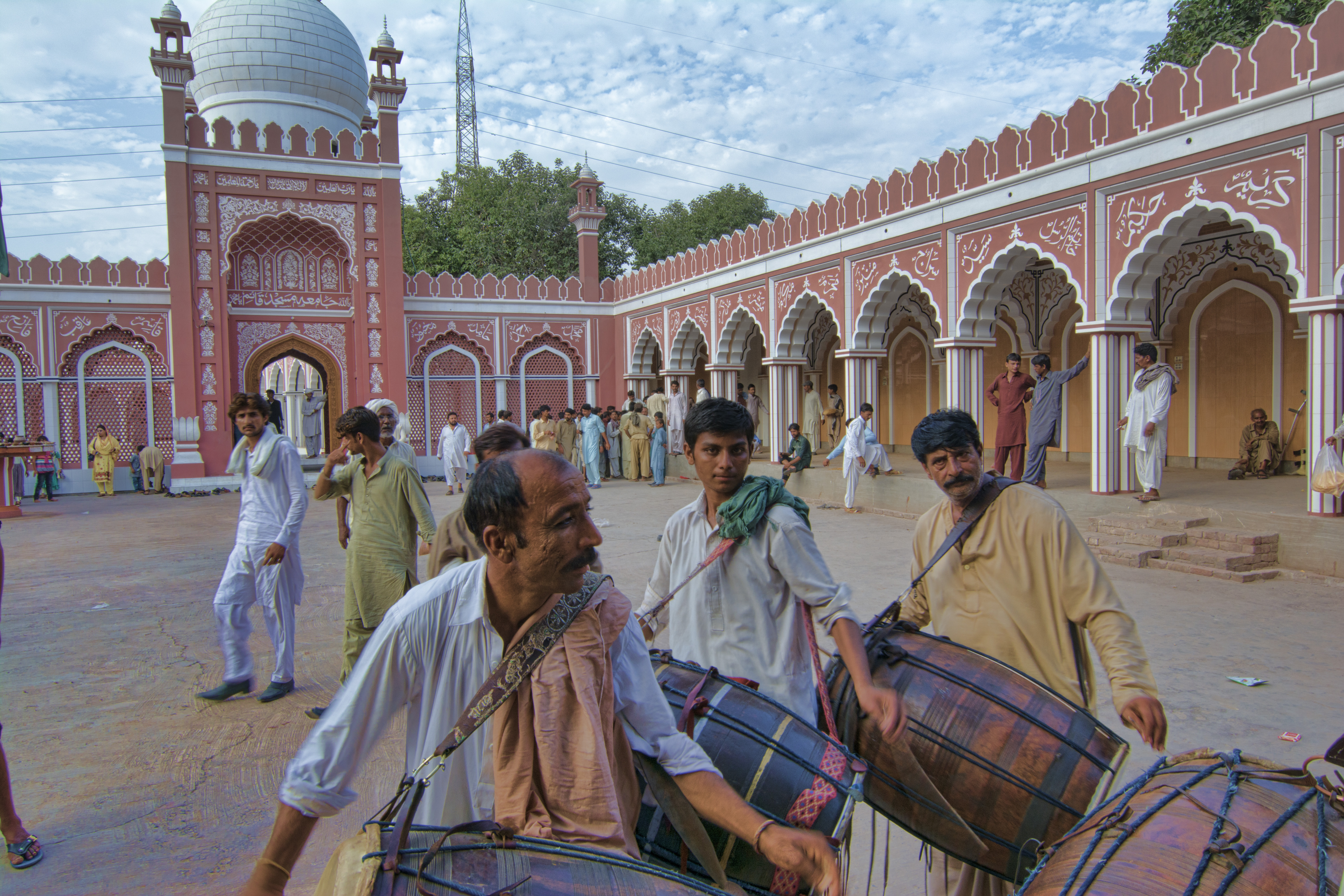 Shrine of Shah Burhan This is a photo of a monument in Pakistan identified as the PB-21